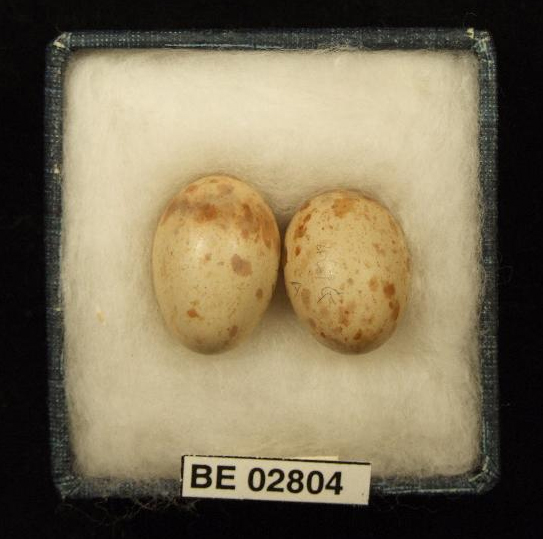 Buff-sided robin eggs collected by H.G. Barnard at McArthur River Station, Northern Territory 1/10/1913